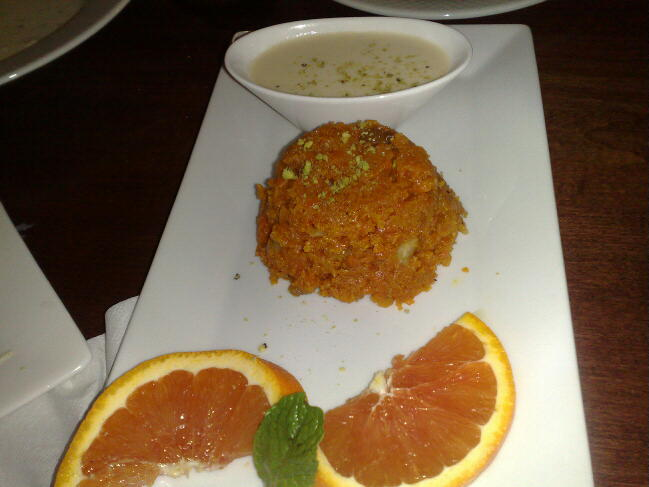 Gajar halwa sprinkled with pistachios in the middle Kheer at the top Sweet orange slices at the bottom